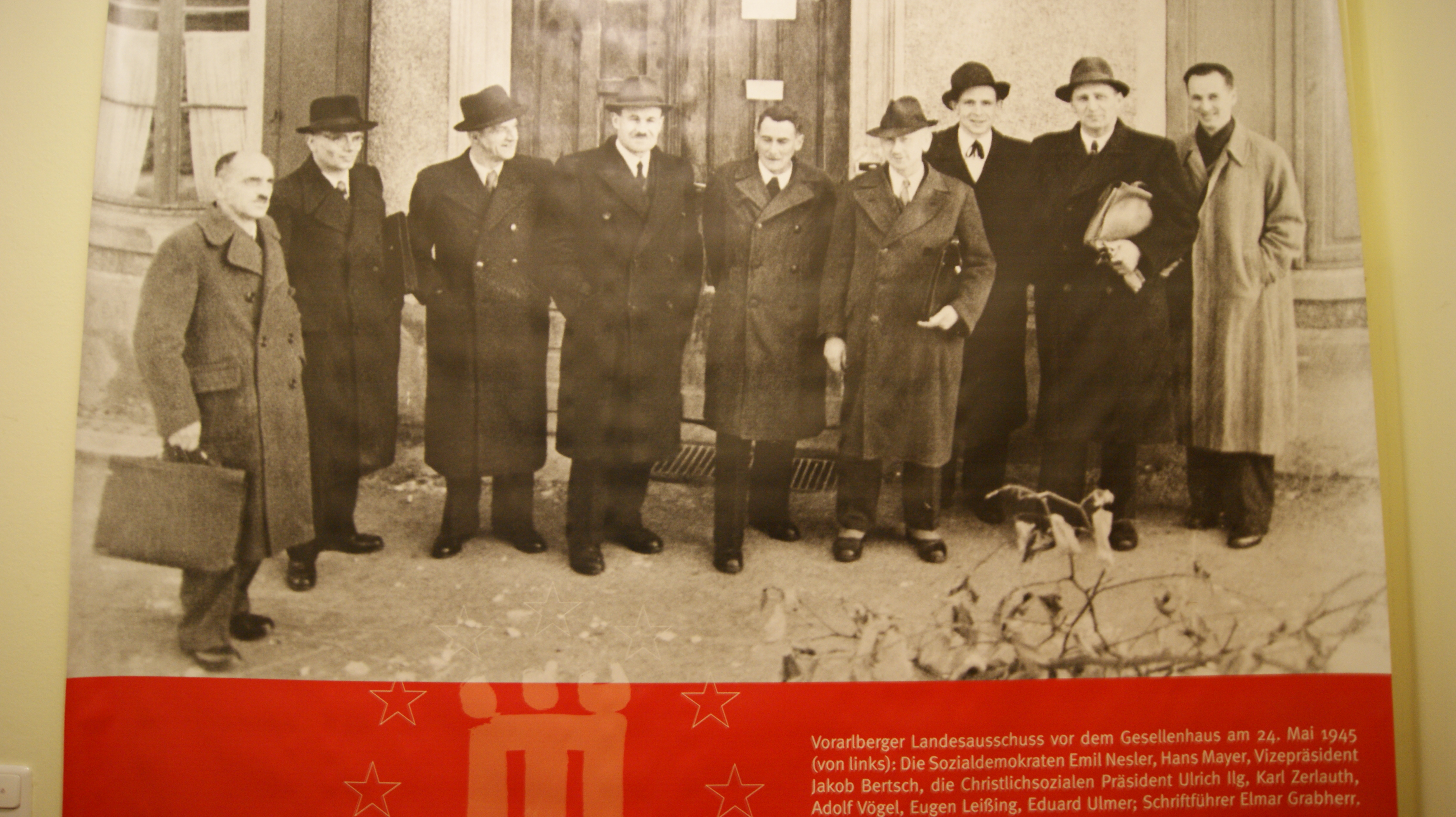 Memory-Placard in the entrance area of the Kolpinghouse in Feldkirch on the constituting of the Vorarlberg Country-committee on 24th May 1945. Reception in front of the entrance of the journeymen's-association-house in Feldkirch (today: Kolpinghouse Feldkirch).